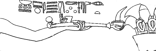 Drawing of a relief from the Karnak temple in Egypt showing a pharoah lustrating